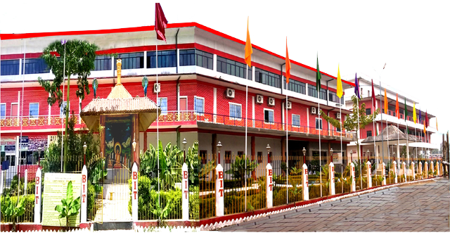 Buddha Institute of Technology one of the Private Institute of BIT Group of Institutions for Engineering College.